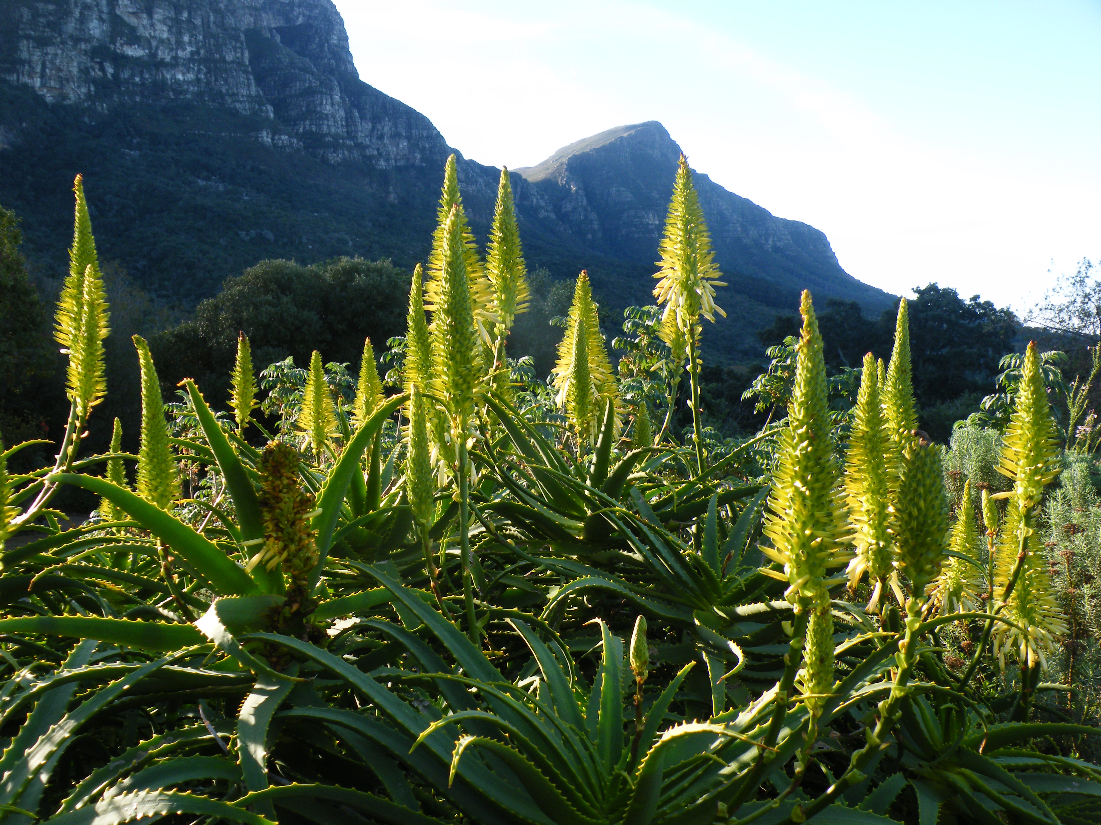 Aloe arborescens or the Krantz Aloe. Yellow-flowered variety. Photo taken in Cape Town.